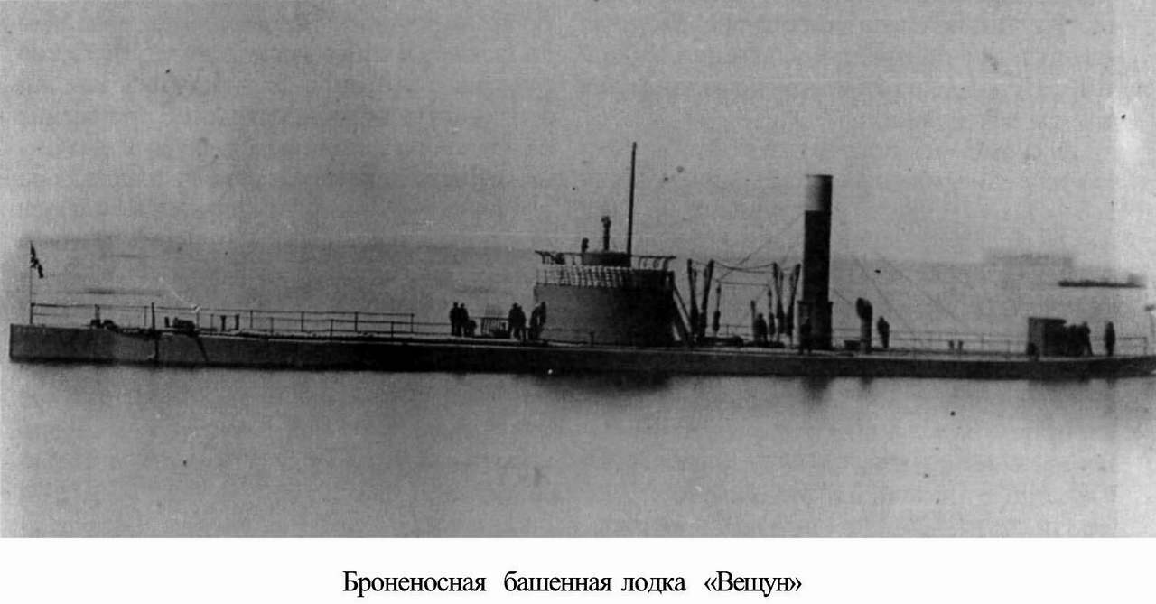 The Russian Uragan class monitor Veschun («Вещун»)